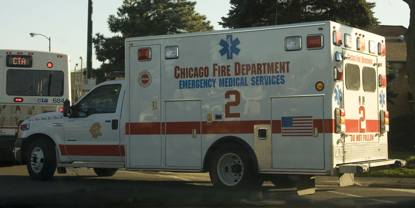 A Chicago Fire Department ambulance. Photographed on Harlem just north of Devon Street on April 5, 2007.